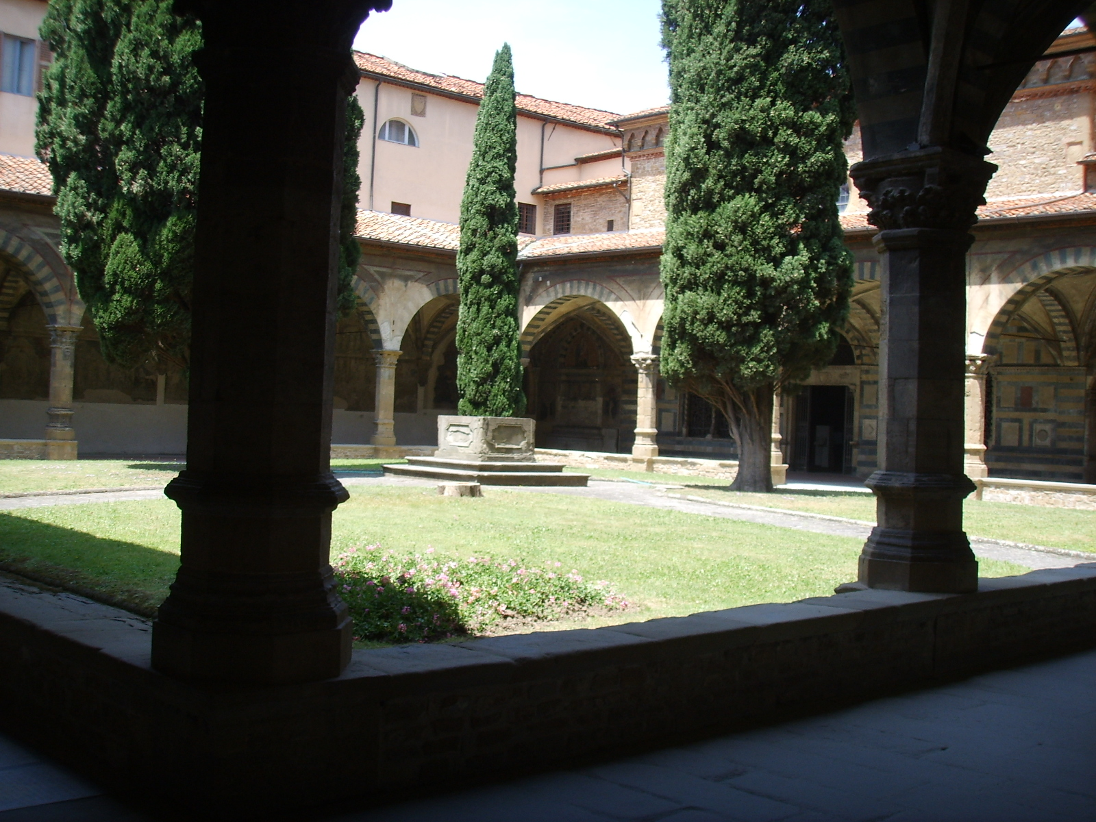 Santa Maria Novella church, Chiostro Verde (green cloister), frescos by paolo uccello, in Florence, Italy